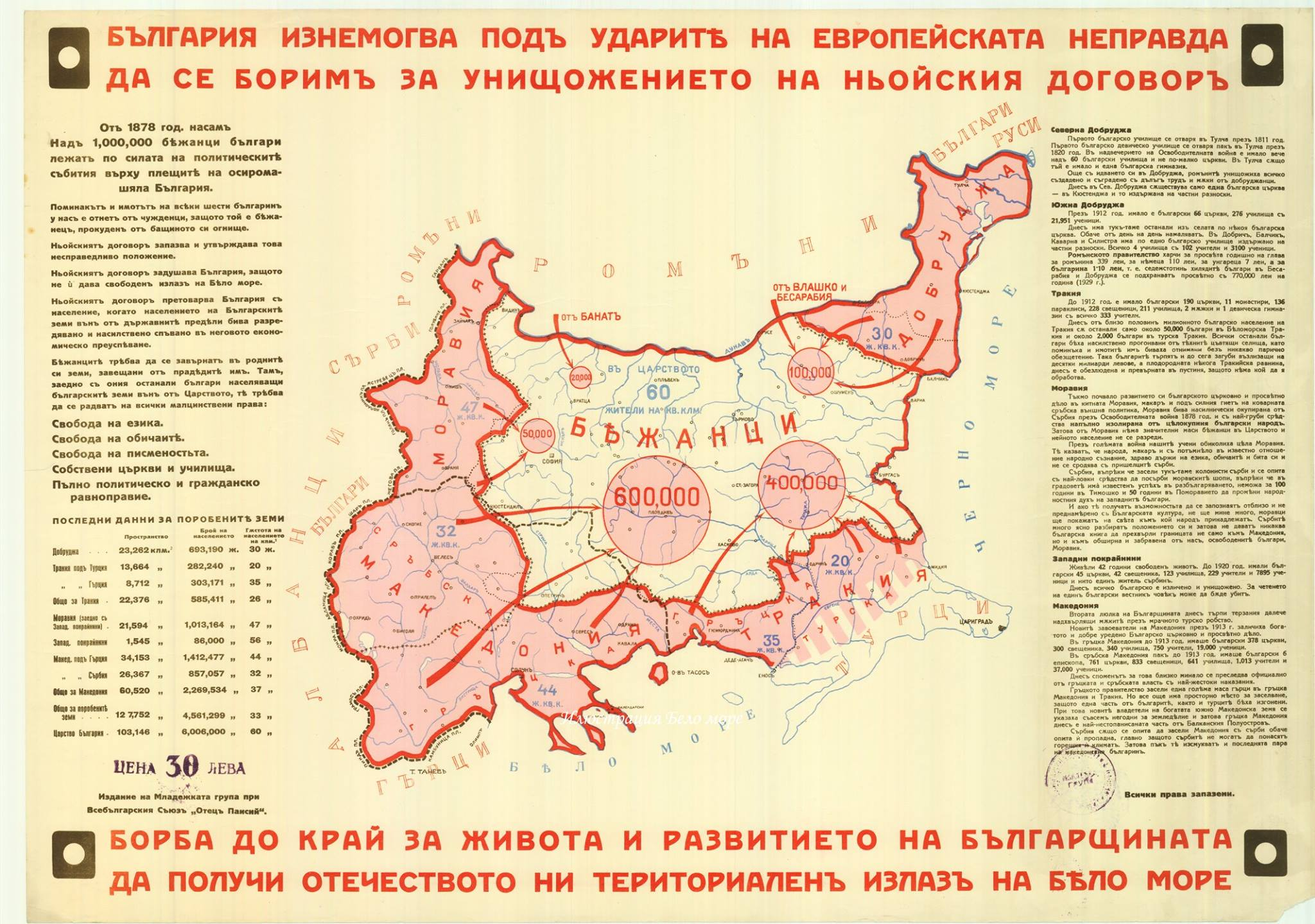 A map of showing Bulgarian refugee flows as a result of the Balkan Wars and WW I published by the All-Bulgarian Union Father Paisiy (Всебългарски съюз "Отец Паисий") in the 1930s.